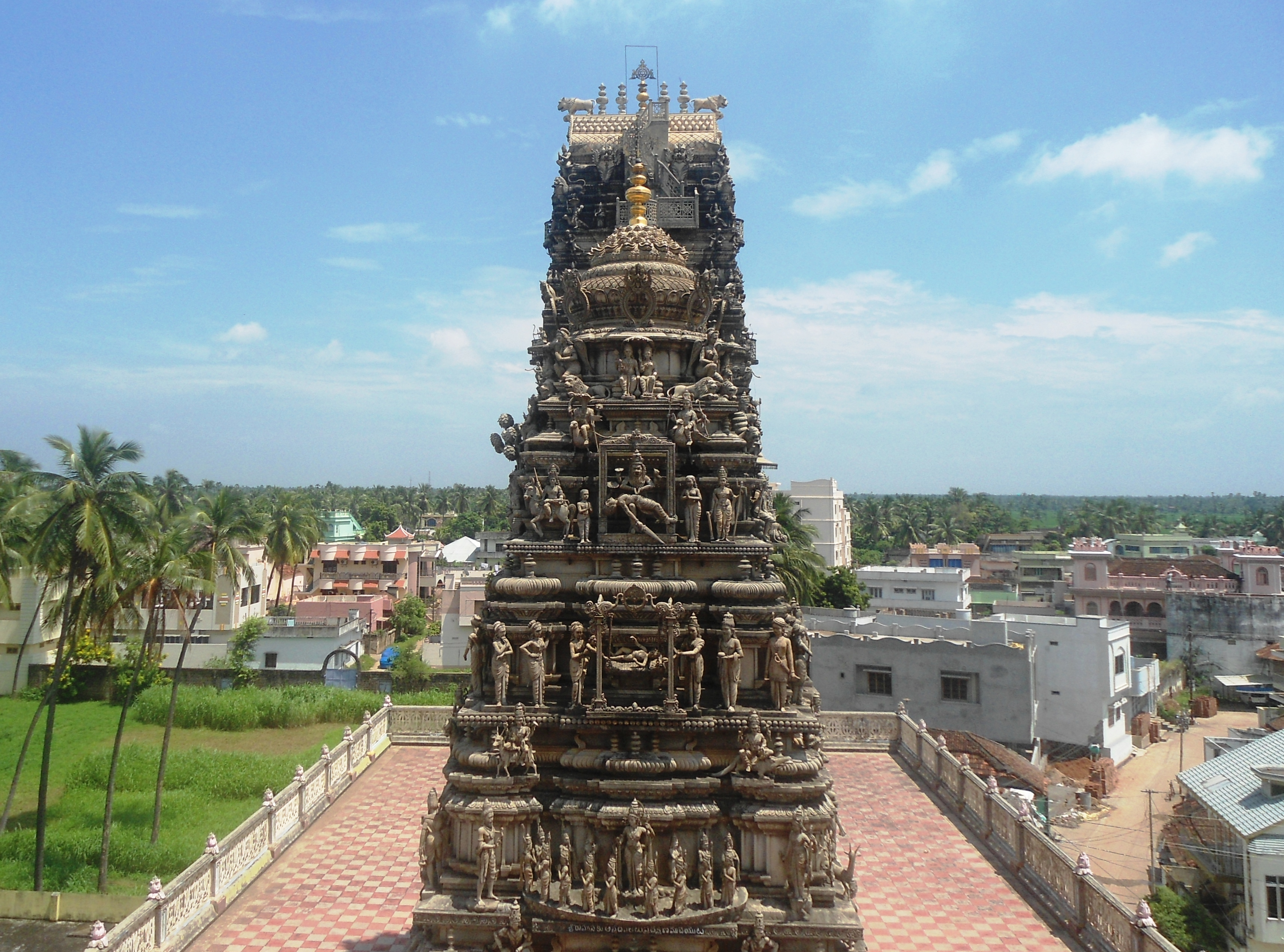 View of Lord Rama Temple Gopuram at Gollalamamidada, East Godavari district